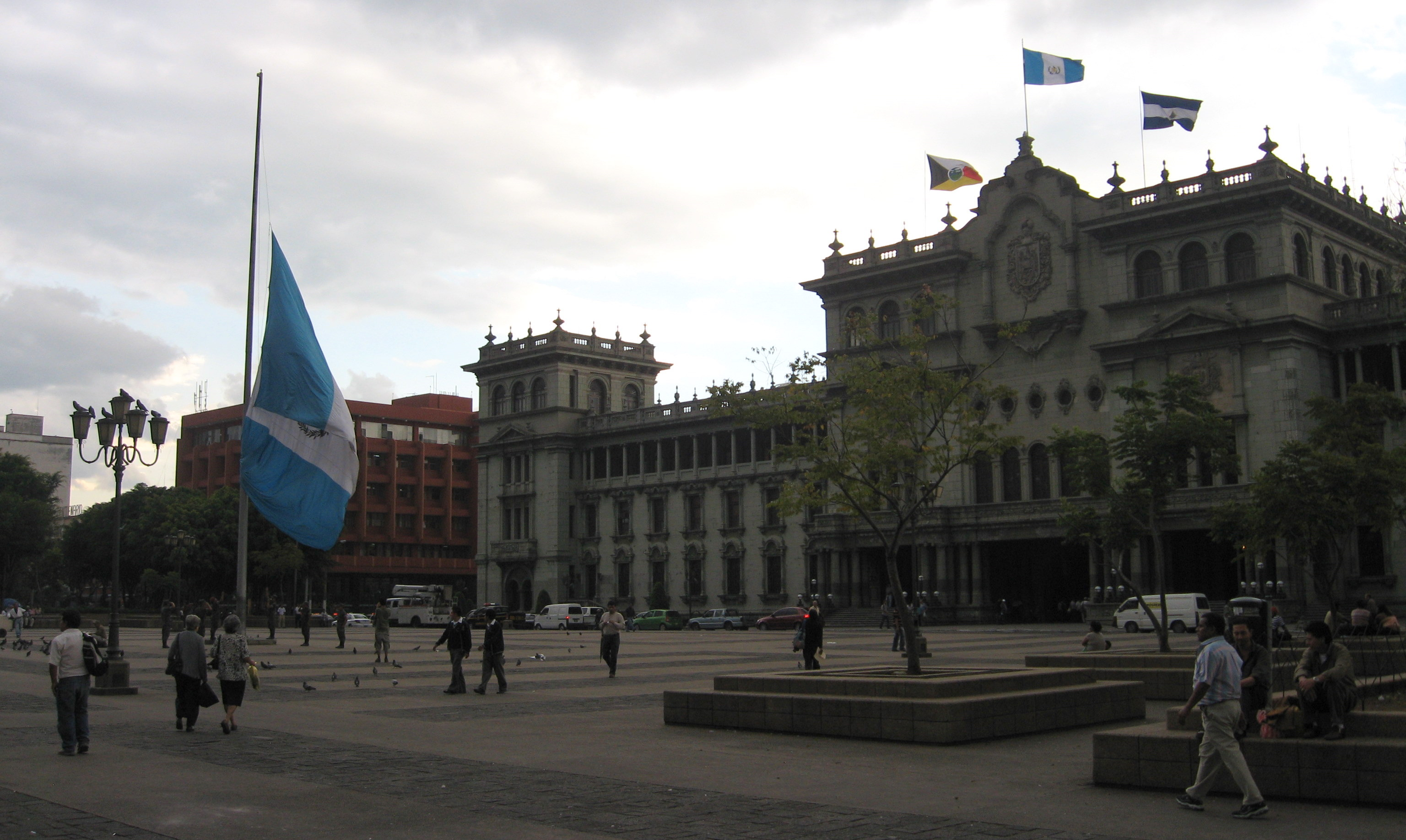 Soldiers taking down the flag before the daily hour of raining, outside the National Palace. Re-used on a Spanish-language news website.